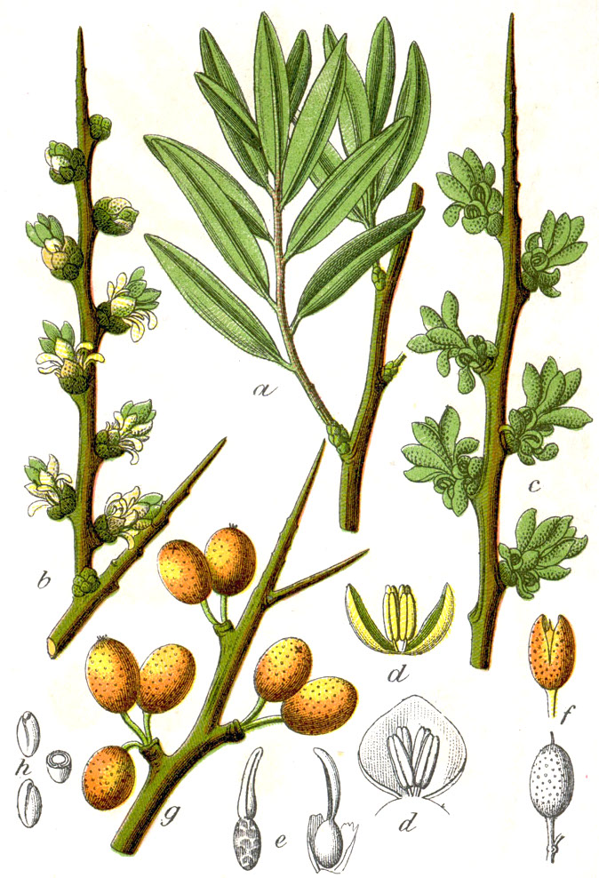 Elaeagnus rhamnoides (L.) A.Nelson, syn. Hippophae rhamnoides L. Original Caption Sanddorn, Hippophaë rhamnoides